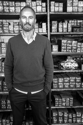 Erwin Wurm, Foto: Inge Prader